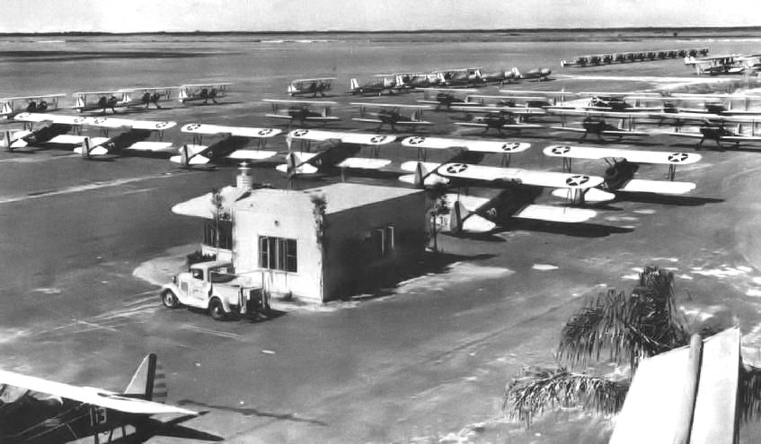 PT-17 Stearman primary training aircraft at Dorr Field, Florida